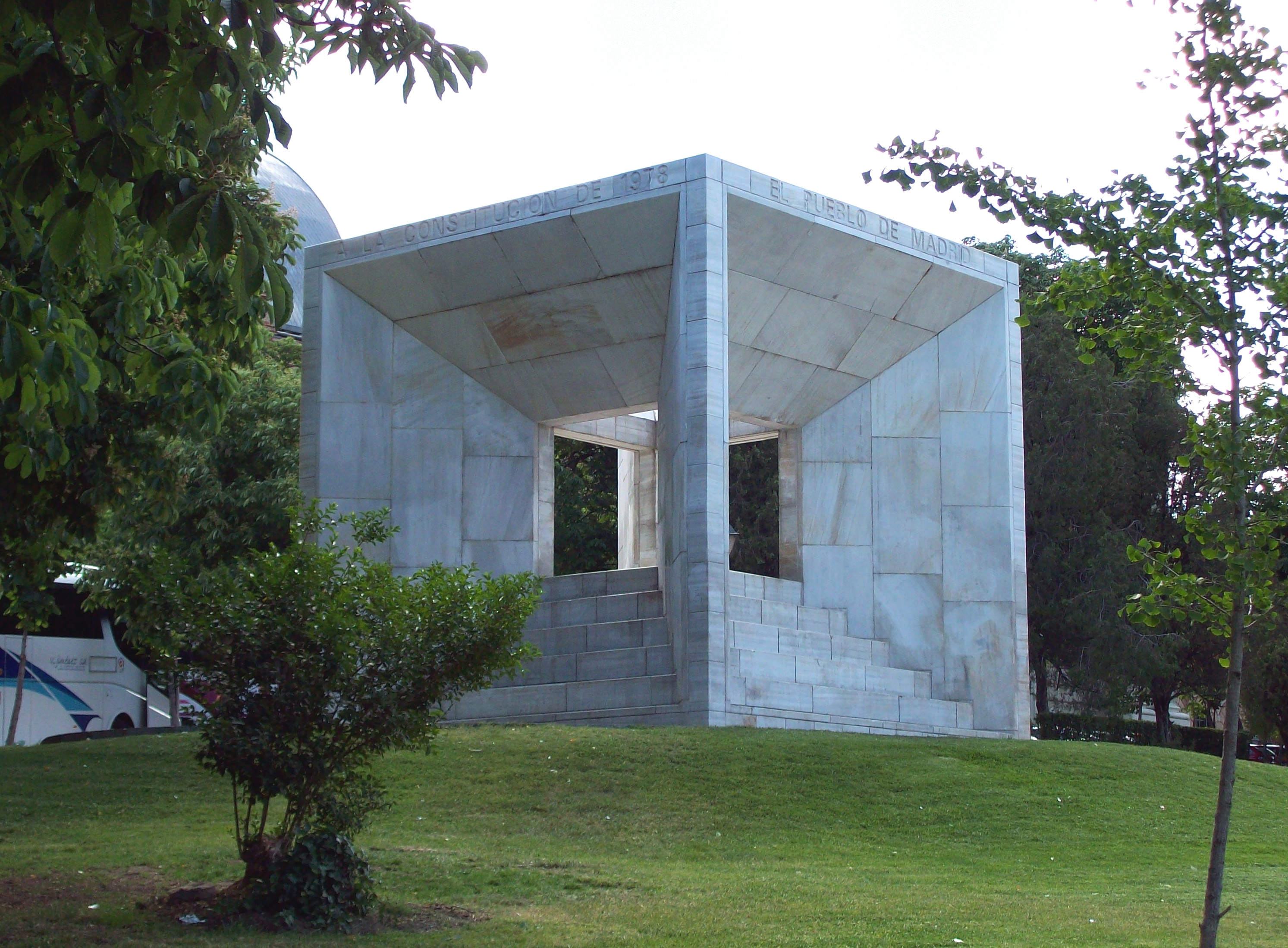 View of the monument to the Spanish Constitution of 1978 in Chamartín district in Madrid.